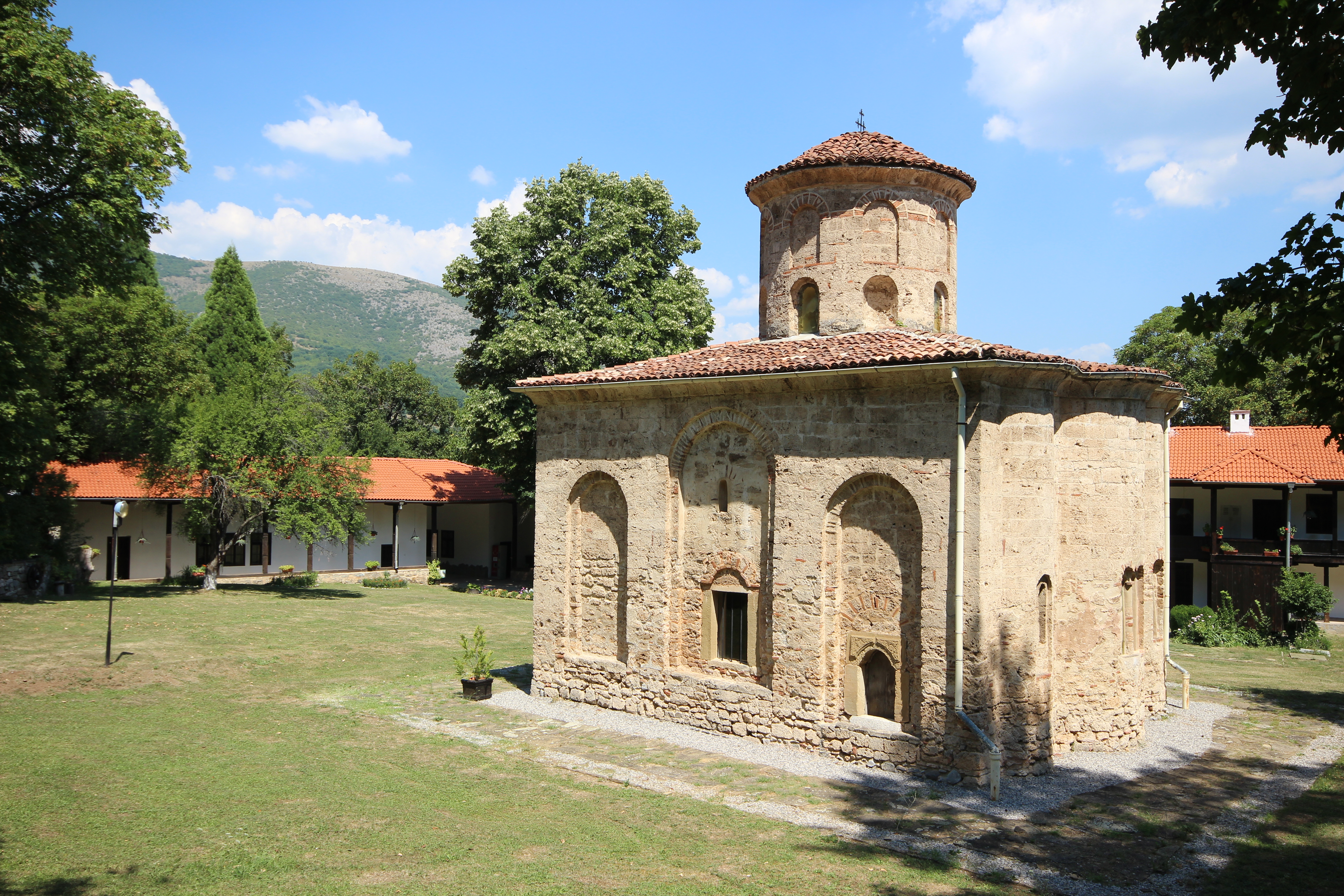 Outside view of the church in Zemen Monastery